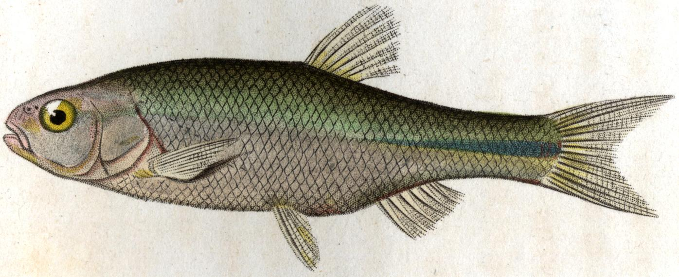 Pseudophoxinus stymphalicus (fam: carps/Karpfenfische)